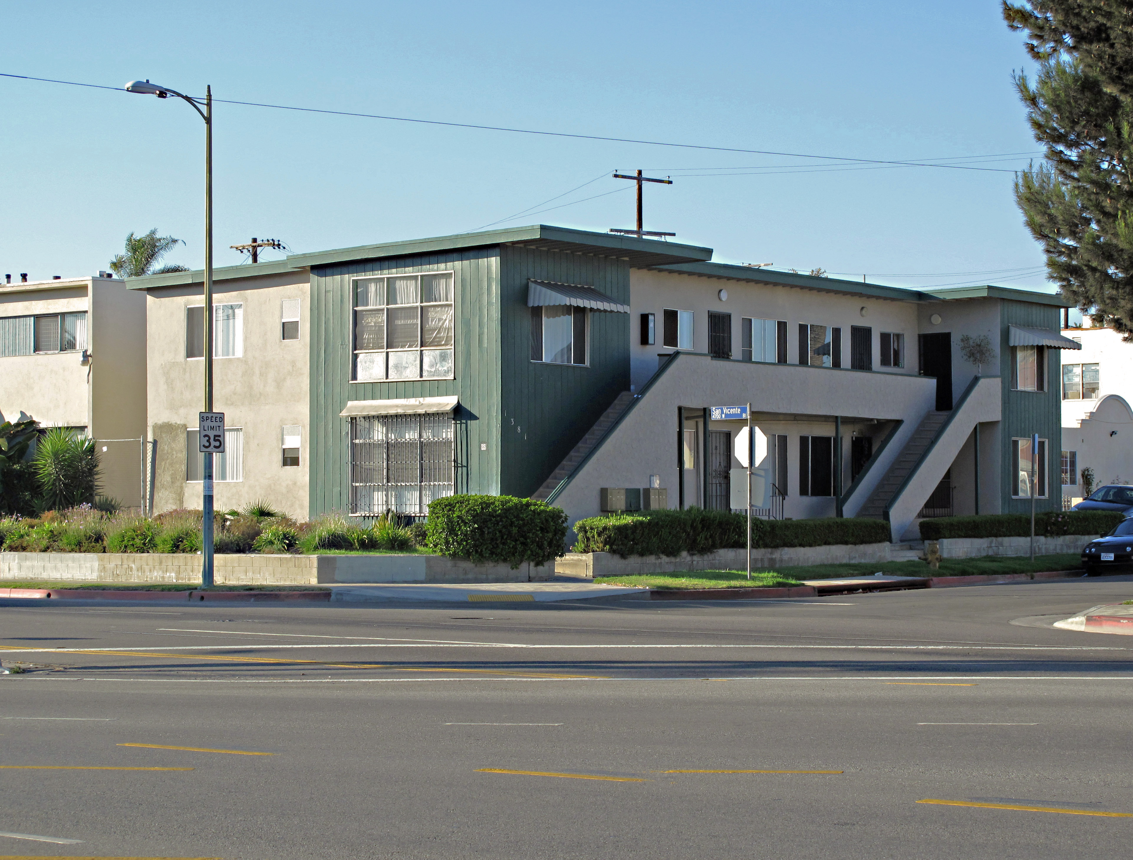 Typical apartment building of the older neighborhoods in the City of Los Angeles. San Vicente at Pico Boulevard, at the north edge of the Mid-City, Los Angeles neighborhood.